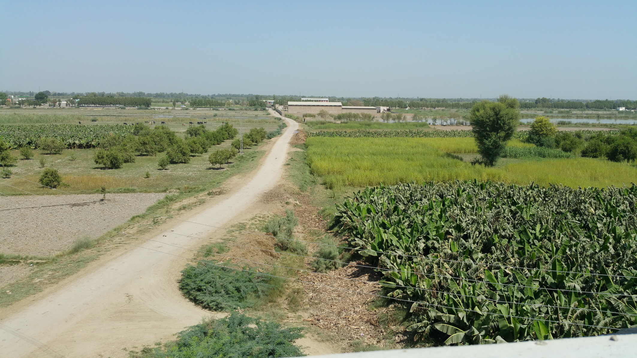 Noushahro Feroze District, Pakistan